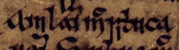 An excerpt from folio 16v of Oxford Bodleian Library MS Rawlinson B 488 (the Annals of Tigernach): "Amlaim mac Sitriuca". The excerpt concerns Amlaíb mac Sitriuc (died 1034).